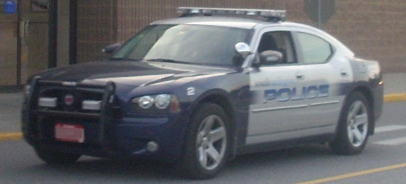 2006-present Dodge Charger photographed in South Burlington, Vermont, USA.